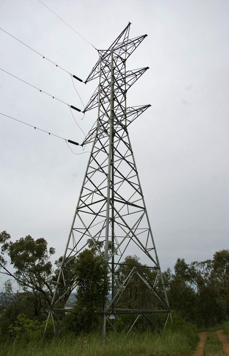 Disused Electricity Commission of New South Wales transmission tower on Willans Hill in Wagga Wagga — in Australia.